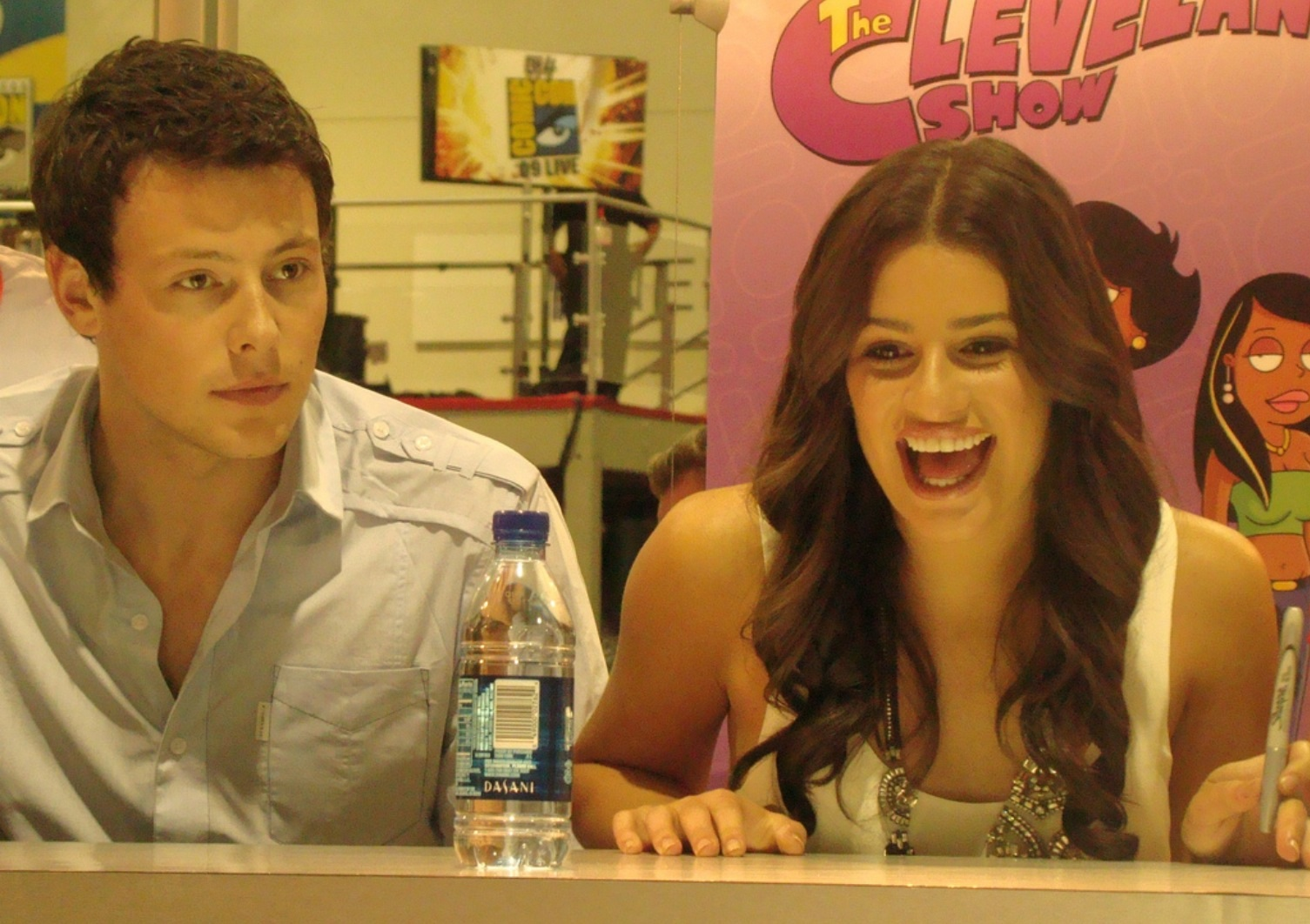 Cory Monteith & Lea Michele at Comic-Con 2009 in San Diego, California, USA